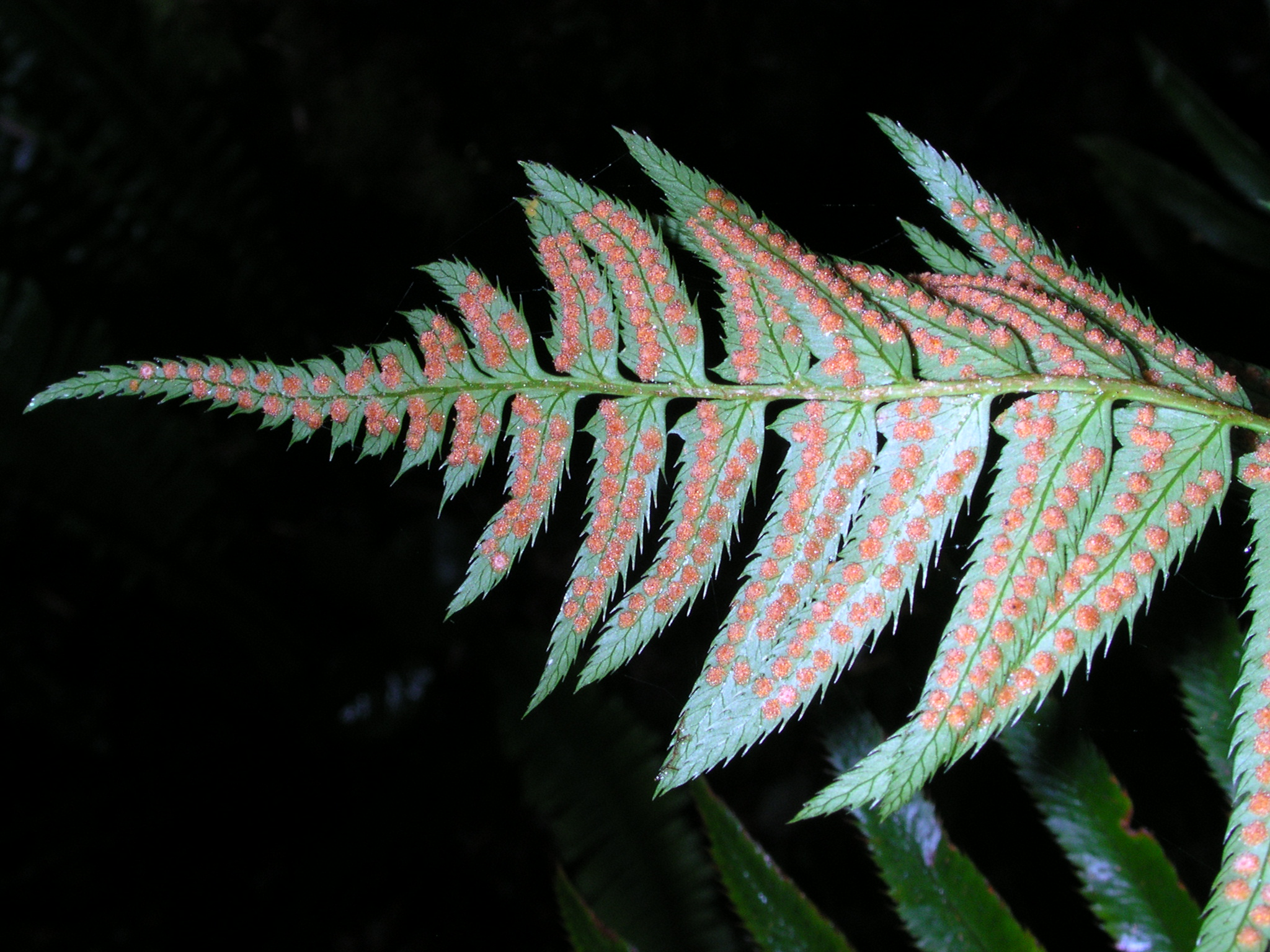 Polystichum munitum (sword fern) with round sori, Lake Quinault Nature Trail, Olympic National Park,Washington, USA